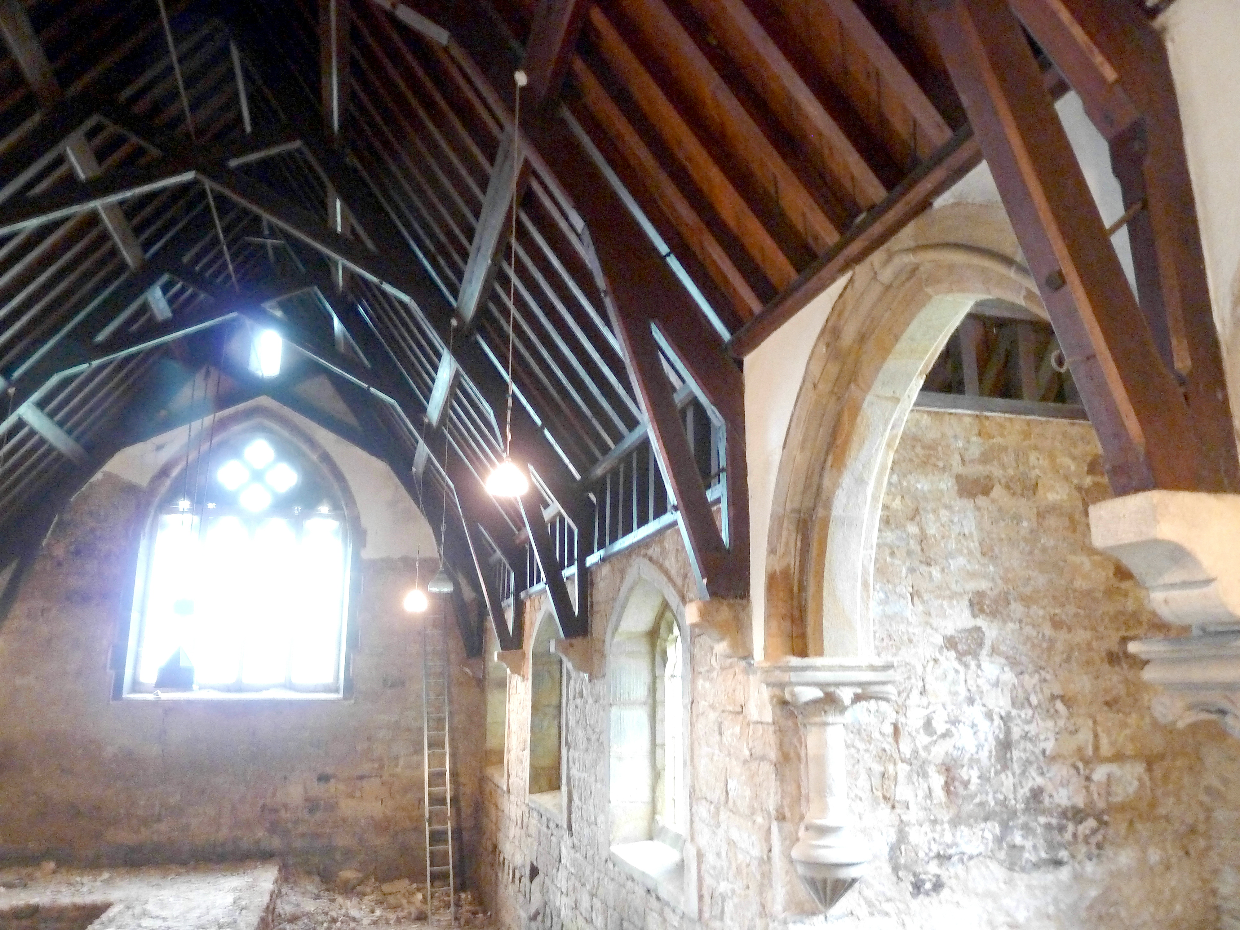 Interior of Church of All Saints, Otley Road, Harlow Hill, Harrogate, North Yorkshire, England. It is the cemetery chapel in Harlow Hill Cemetery, and was designed in 1870 by architects Isaac Thomas Shutt and Alfred Hill Thompson. Natural light image of north wall of nave and its scissor braced truss roof, looking west.